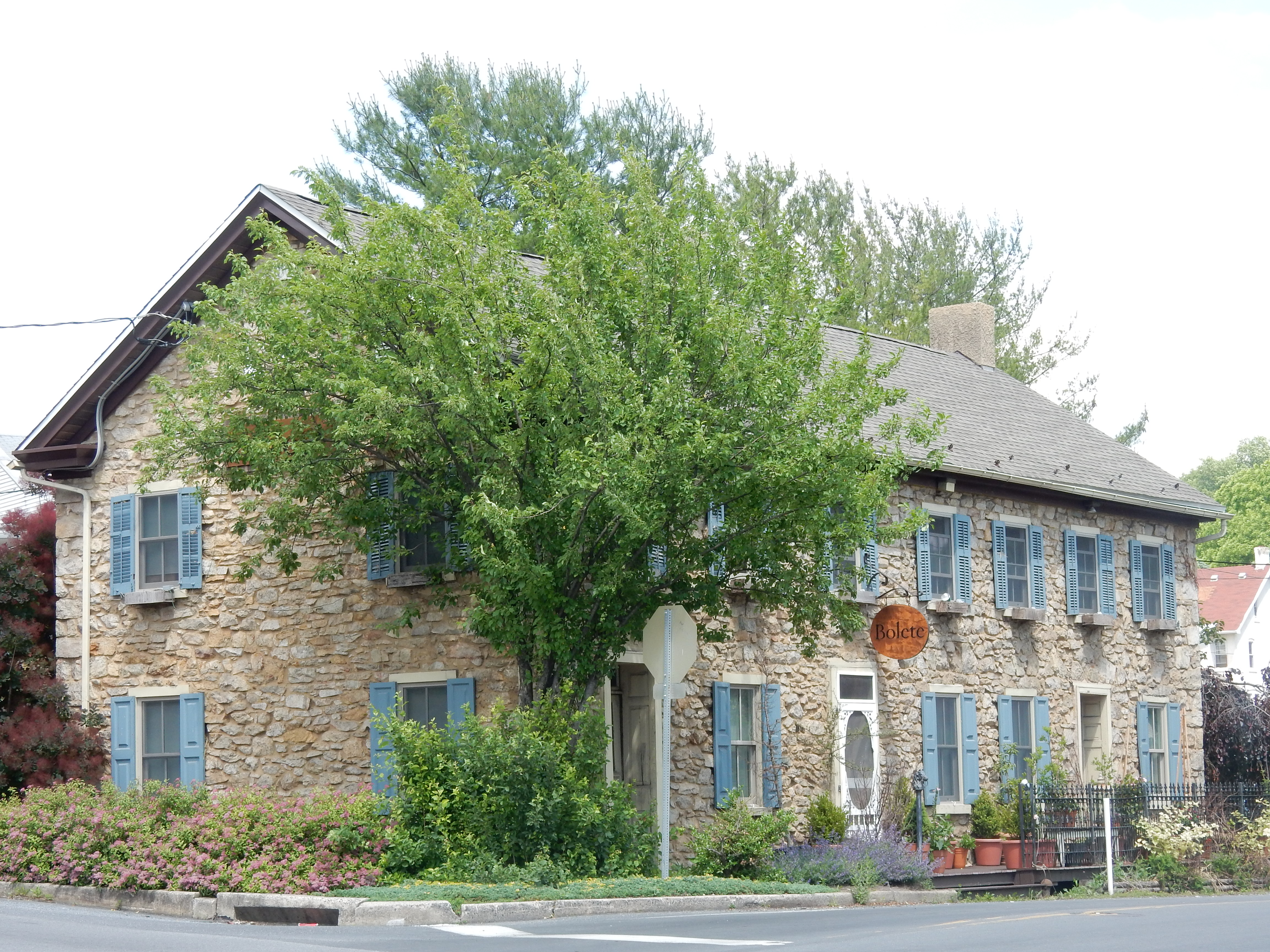 Gauff Hill, Pennsylvania, Bolete Restaurant, 1740 Seidersville Rd, Bethlehem, PA 18015. Corner of Seidersville Rd. and Broadway.